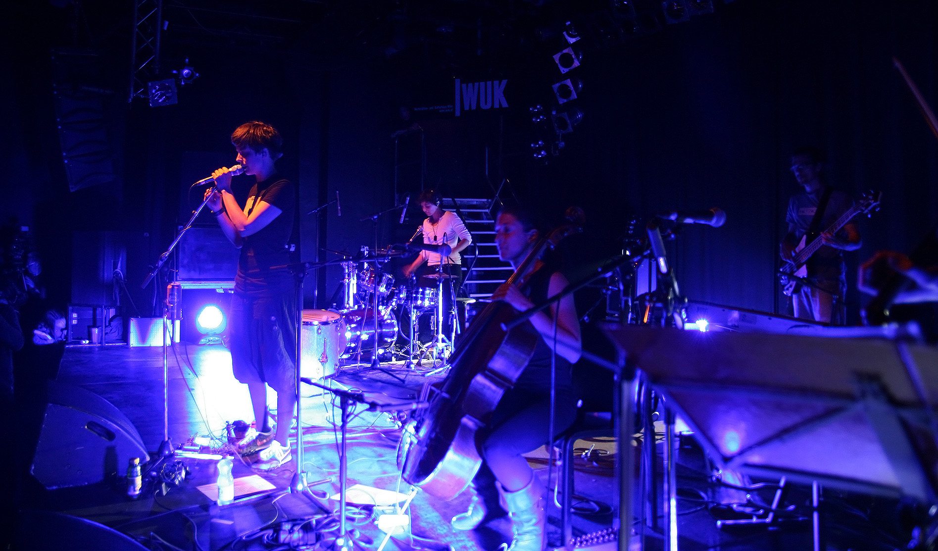 Clara Luzia - concert at the cultural center WUK in Vienna.